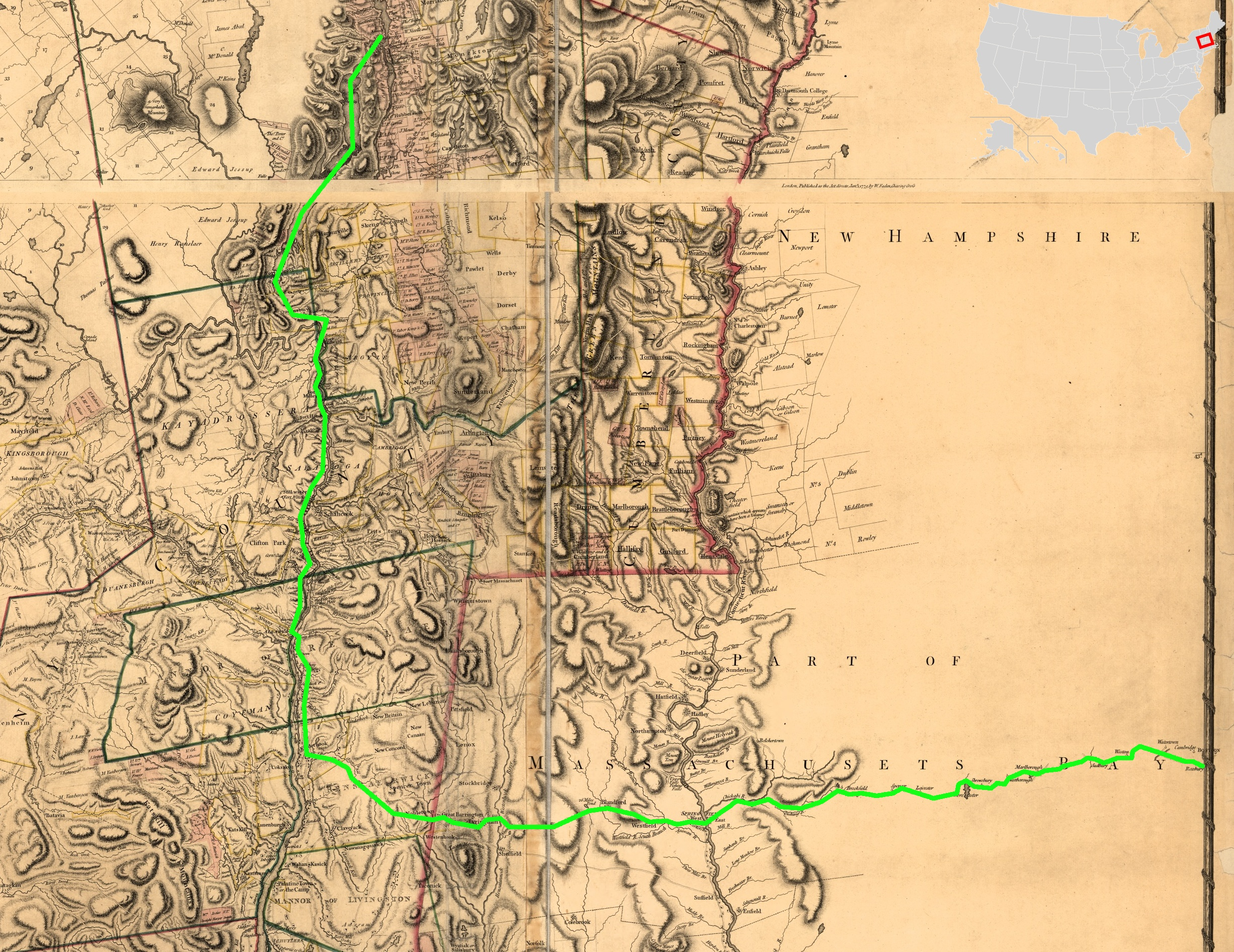 This is an excerpt of a 1779 map by Claude Sauthier of New York. It has been modified to show the Henry Knox Trail, with an inset showing the map's location relative to the modern United States.